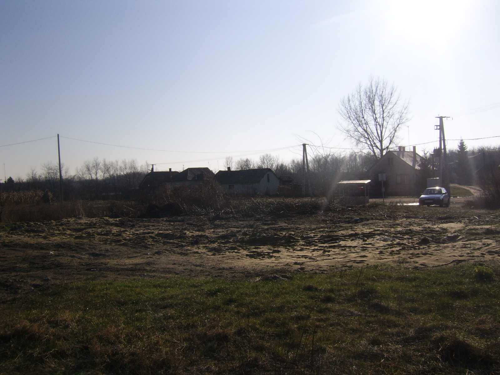 Demolished railway station of Abapuszta, Hungary